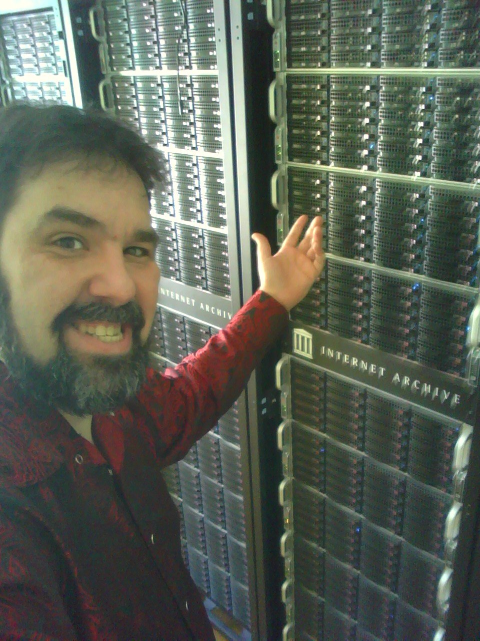 UH OH JASON FOUND THE ARRAY